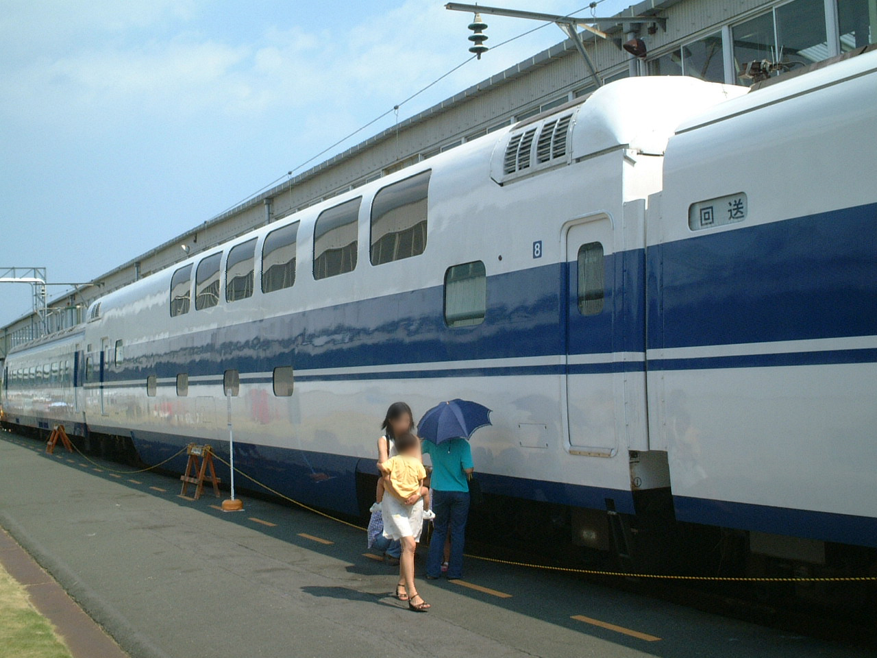 Preserved 100 series shinkansen bilevel car 168-9001 (formerly of set X1) at JR Central's Hamamatsu Works